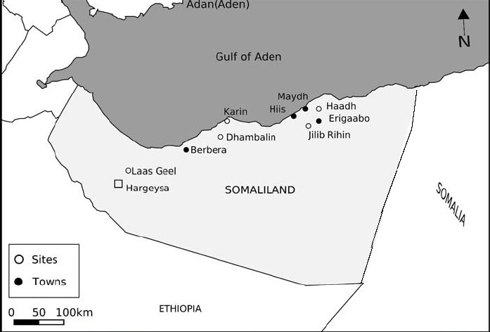 Map of Somaliland showing the location of the site Prehistoric cave sites, rock shelters and cave paintings in Somaliland